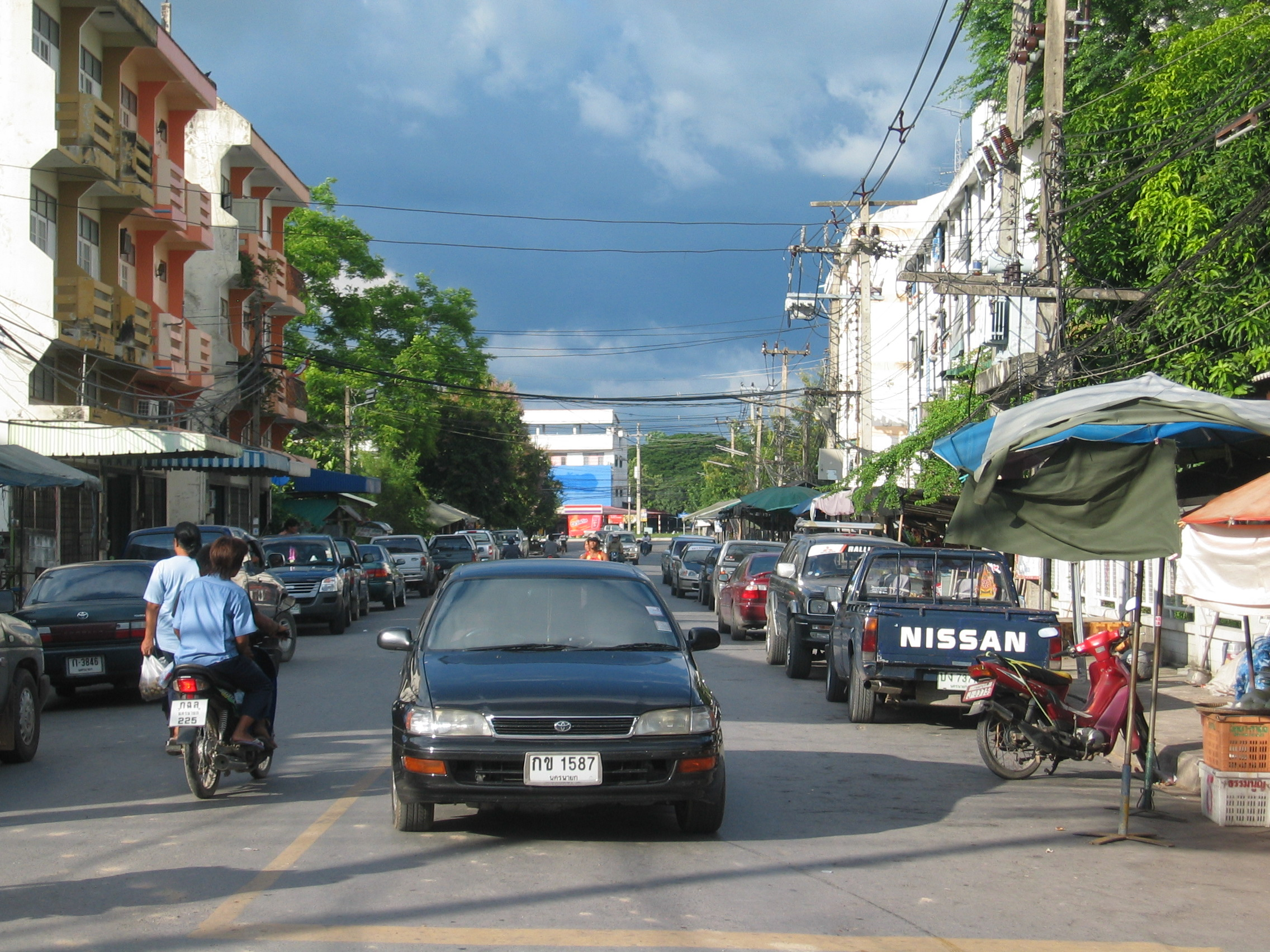 Nakhon Nayok city